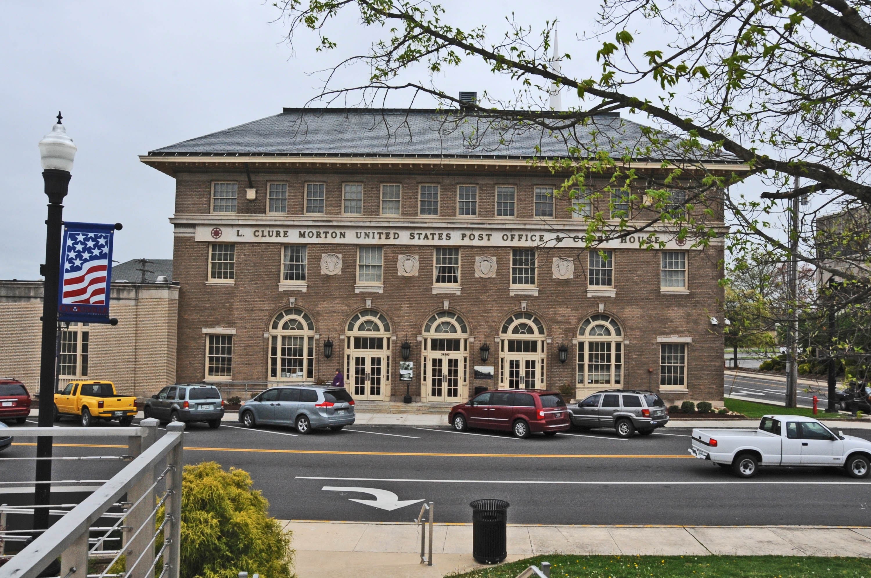 BUILT 1914 TO 1916; NAMED L. CLURE MORTON POST OFFICE IN 1996